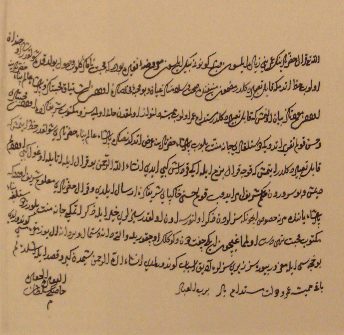 Letter of Roxelane to Sigismond Auguste complementing him for his accession to the throneو 1549.